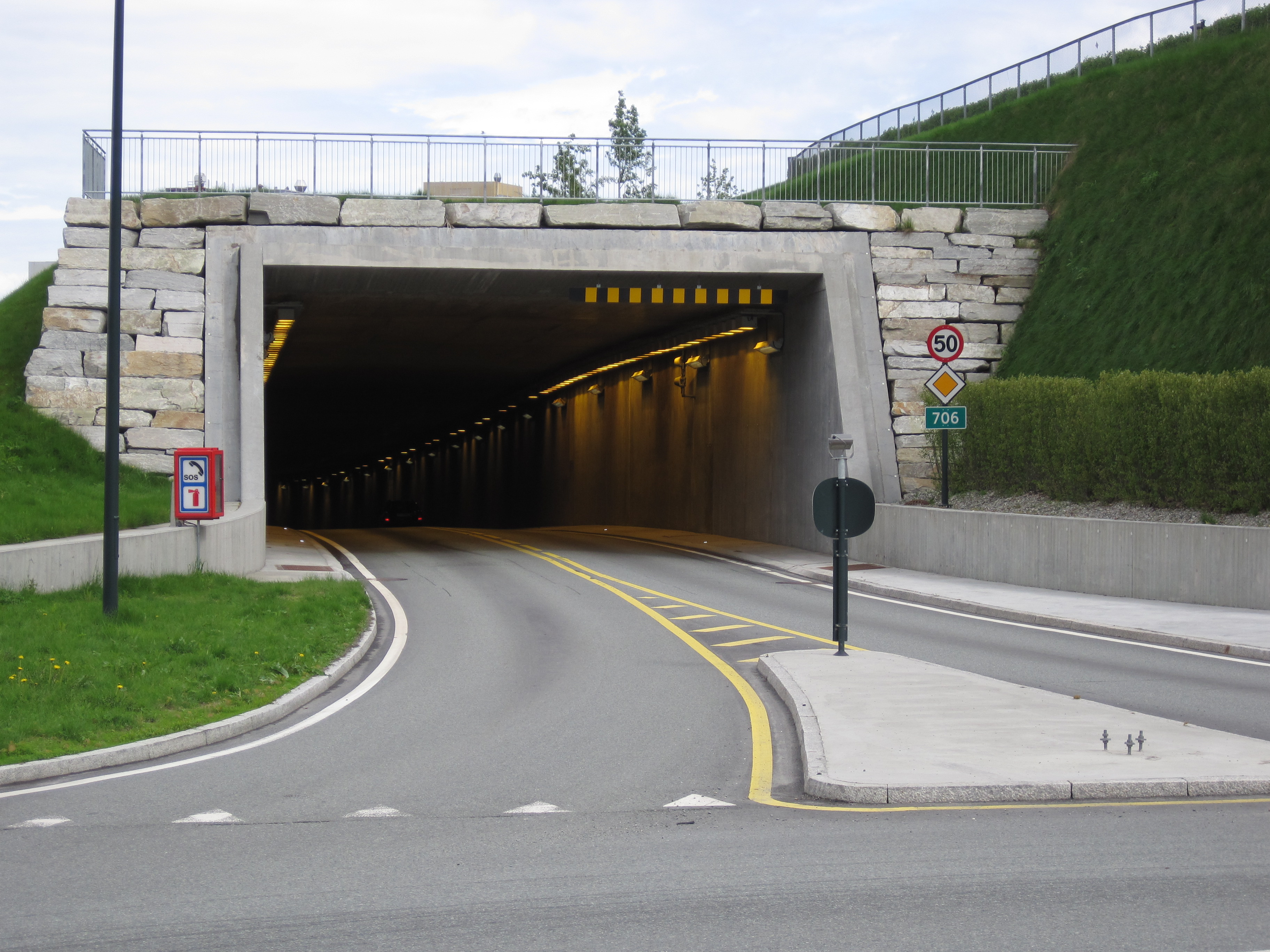 Entrance to Ilsvik tunnel in Trondheim, Norway.